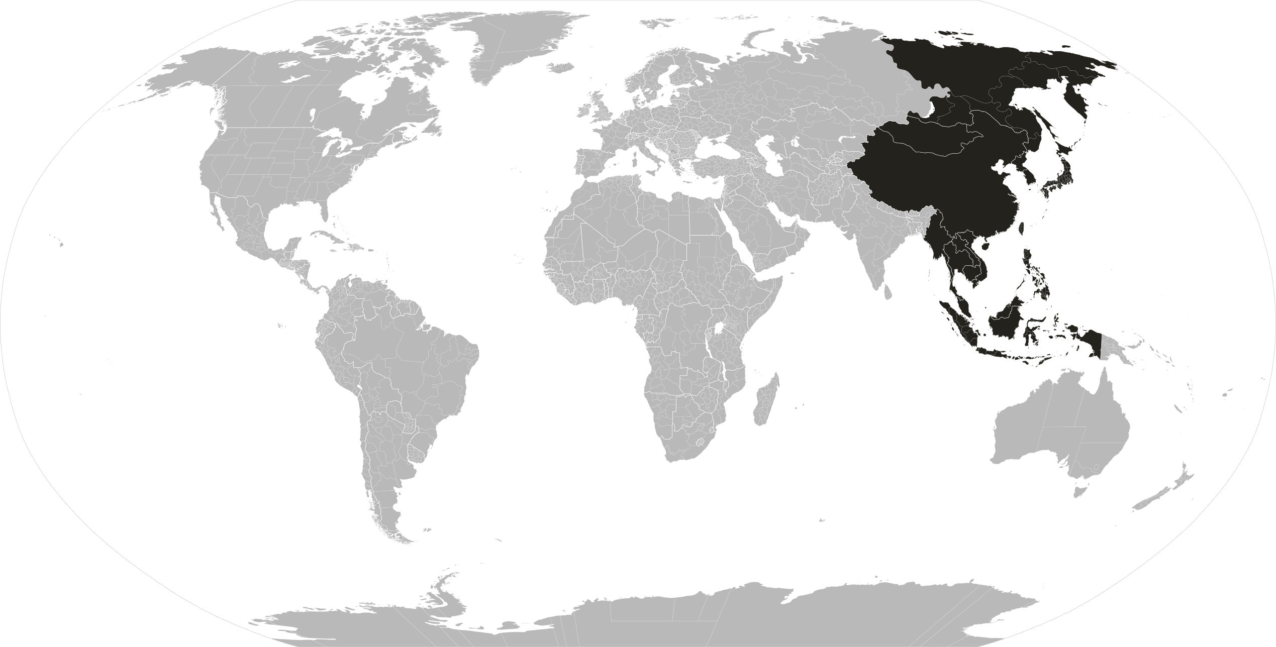 Depiction of the Far East, with political subdivisions.